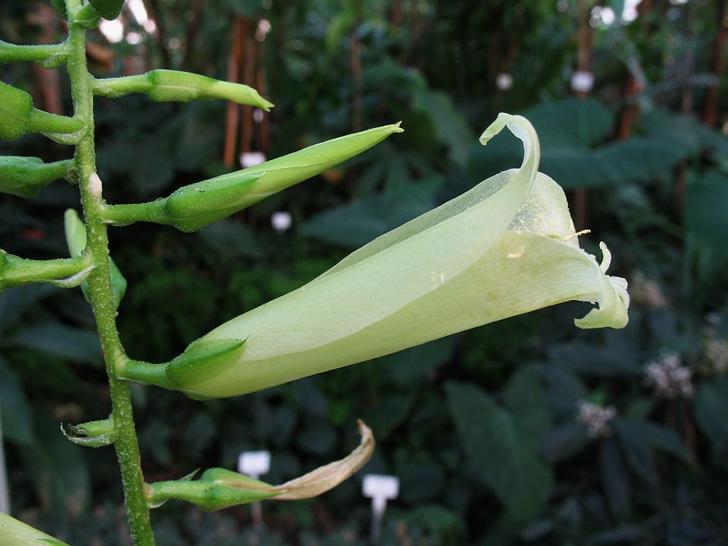 Pitcairnia loki-schmidtiae type plant in cultivation at the Botanical Garden of Heidelberg, Germany.